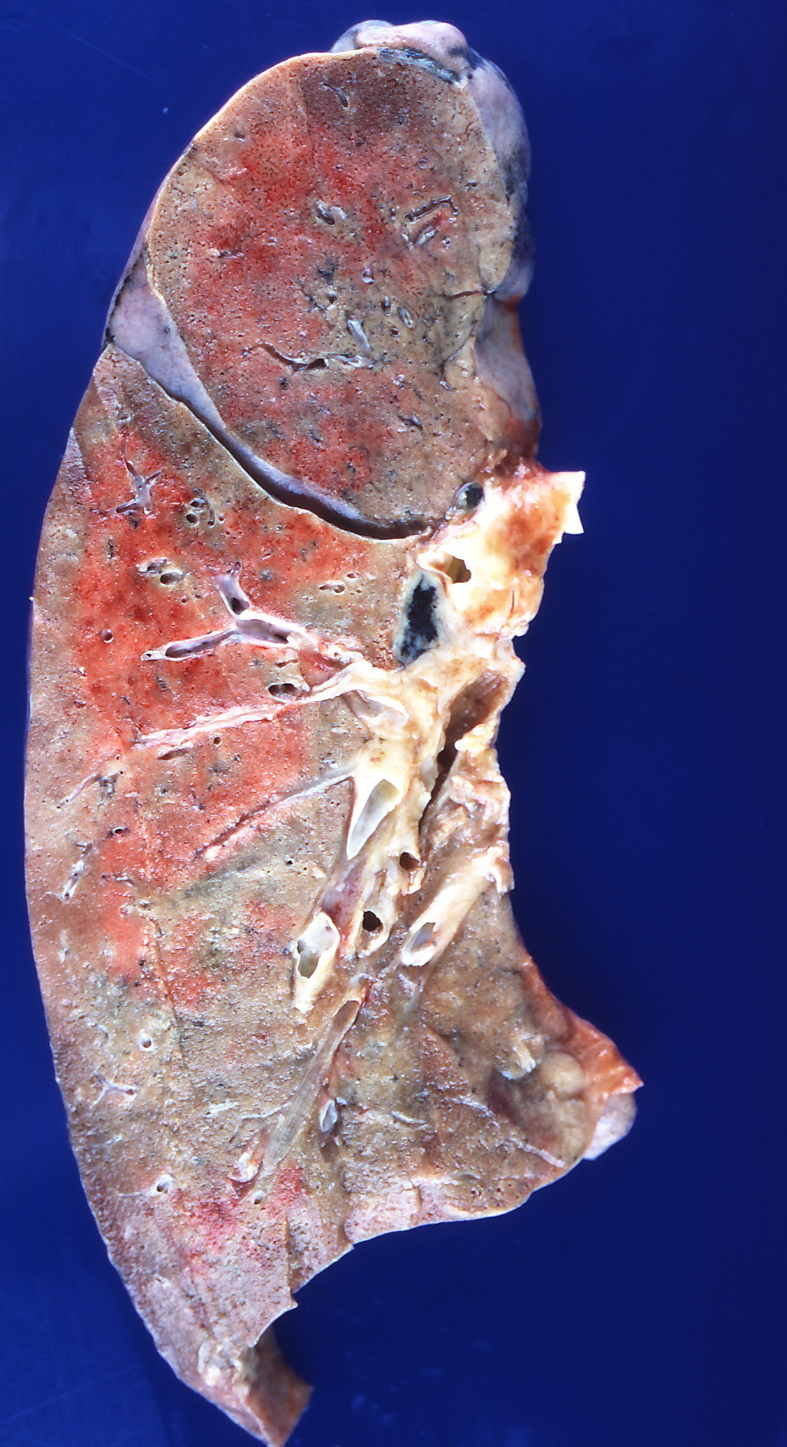 Acute radiation pneumonitis characterized by diffuse lung consolidation.